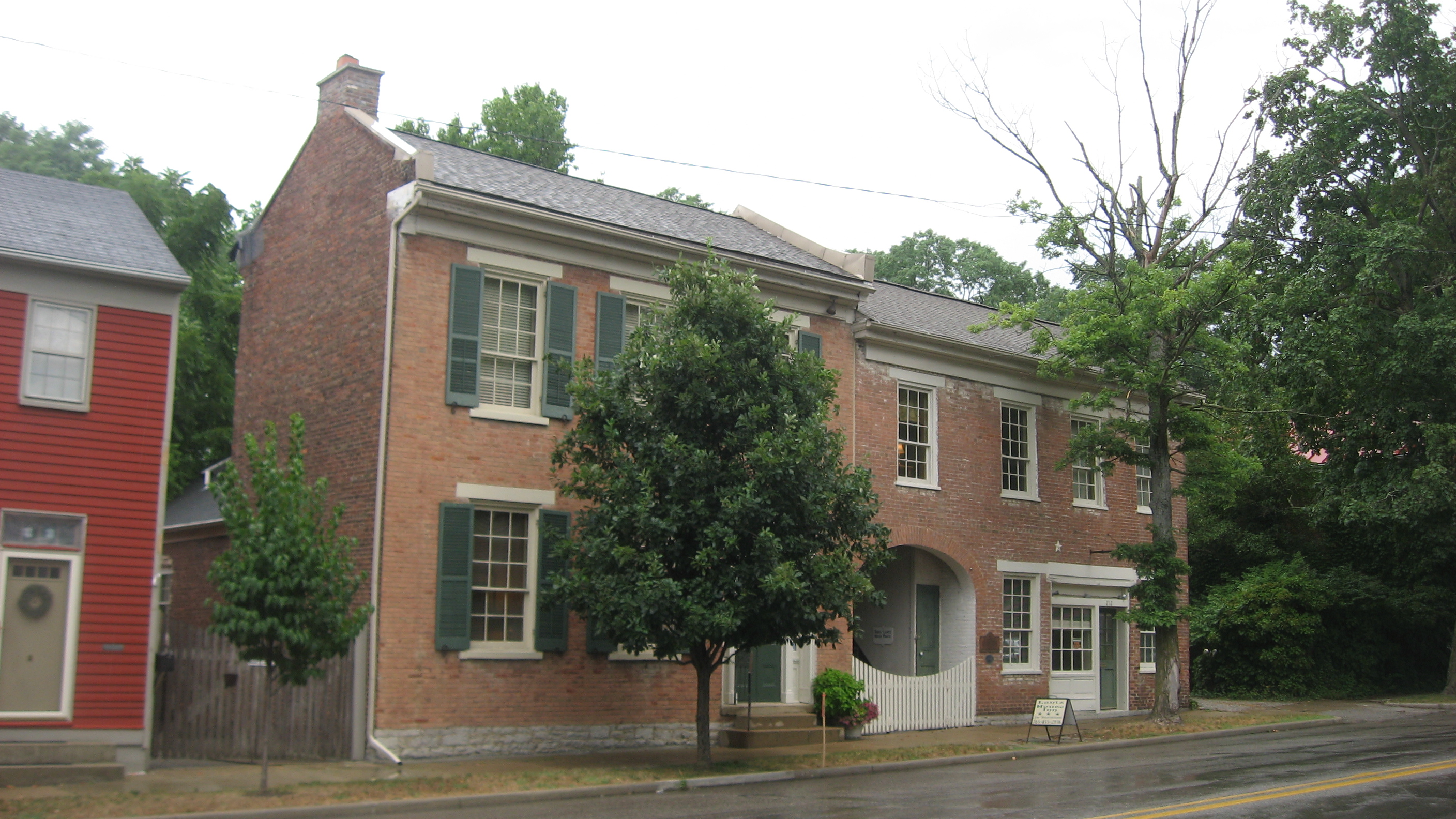 Front of the Lantz House Inn, located at 214 W. Main Street (U.S. Route 40) in Centerville, Indiana, United States. Built in 1835, it is part of the Centerville Historic District, a historic district that is listed on the National Register of Historic Places.